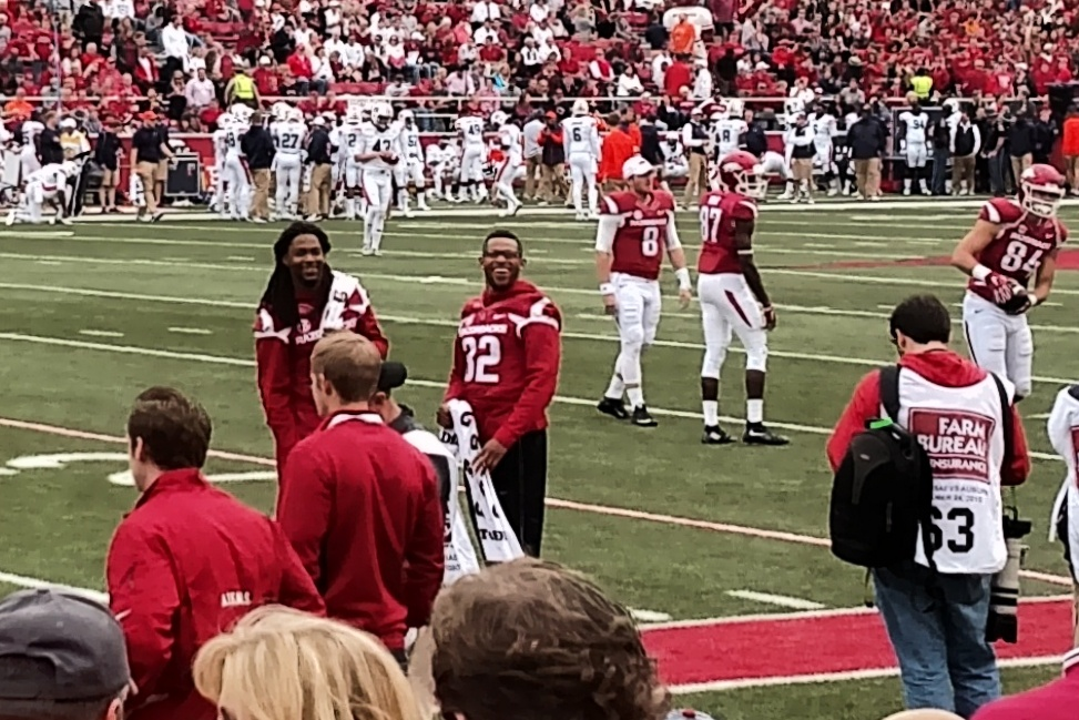 Jonathan Williams looks toward family members in the stands during the game